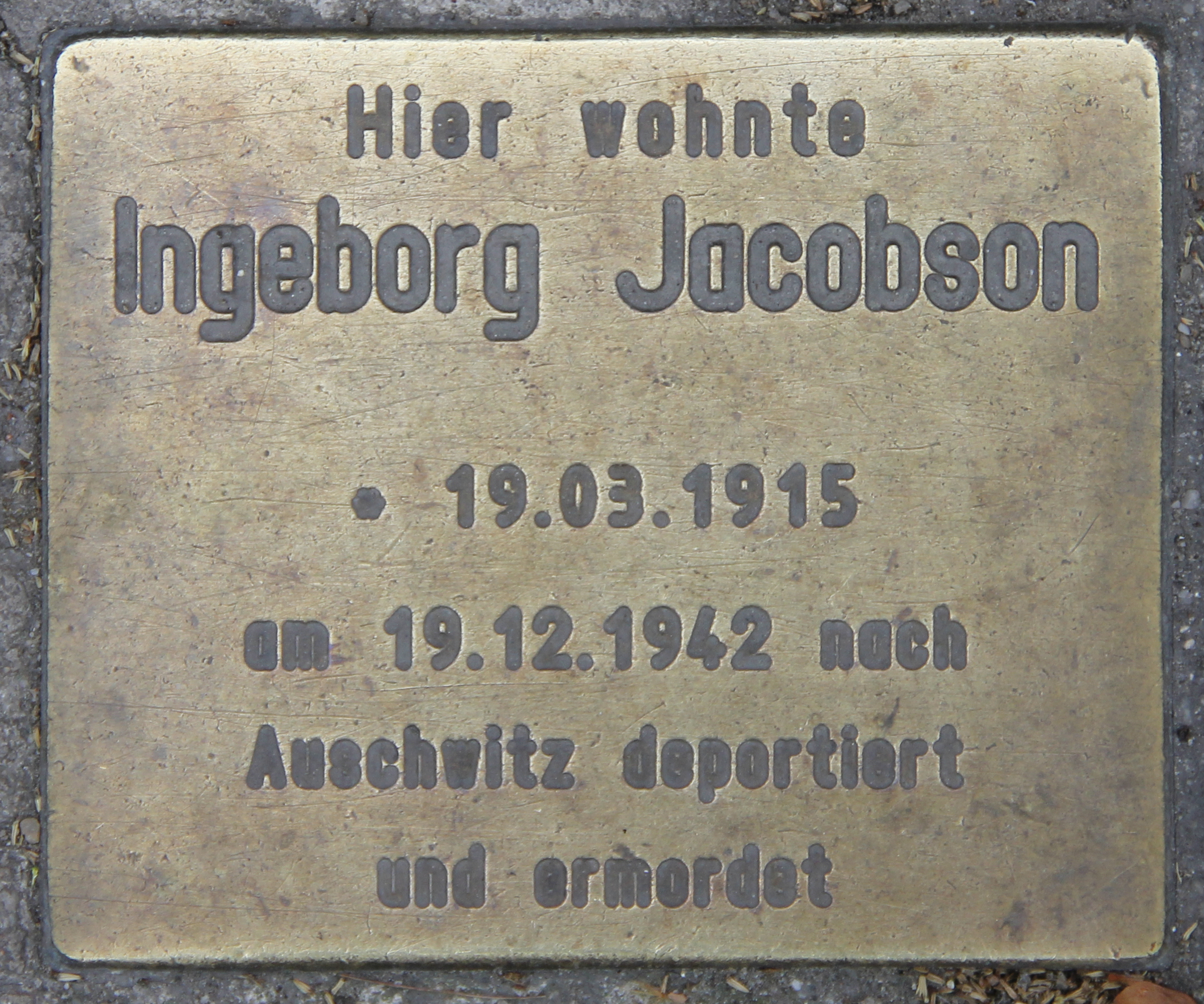 "Denkstein", Ingeborg Jacobson, Budapester Straße 39-41, Berlin-Charlottenburg, Germany